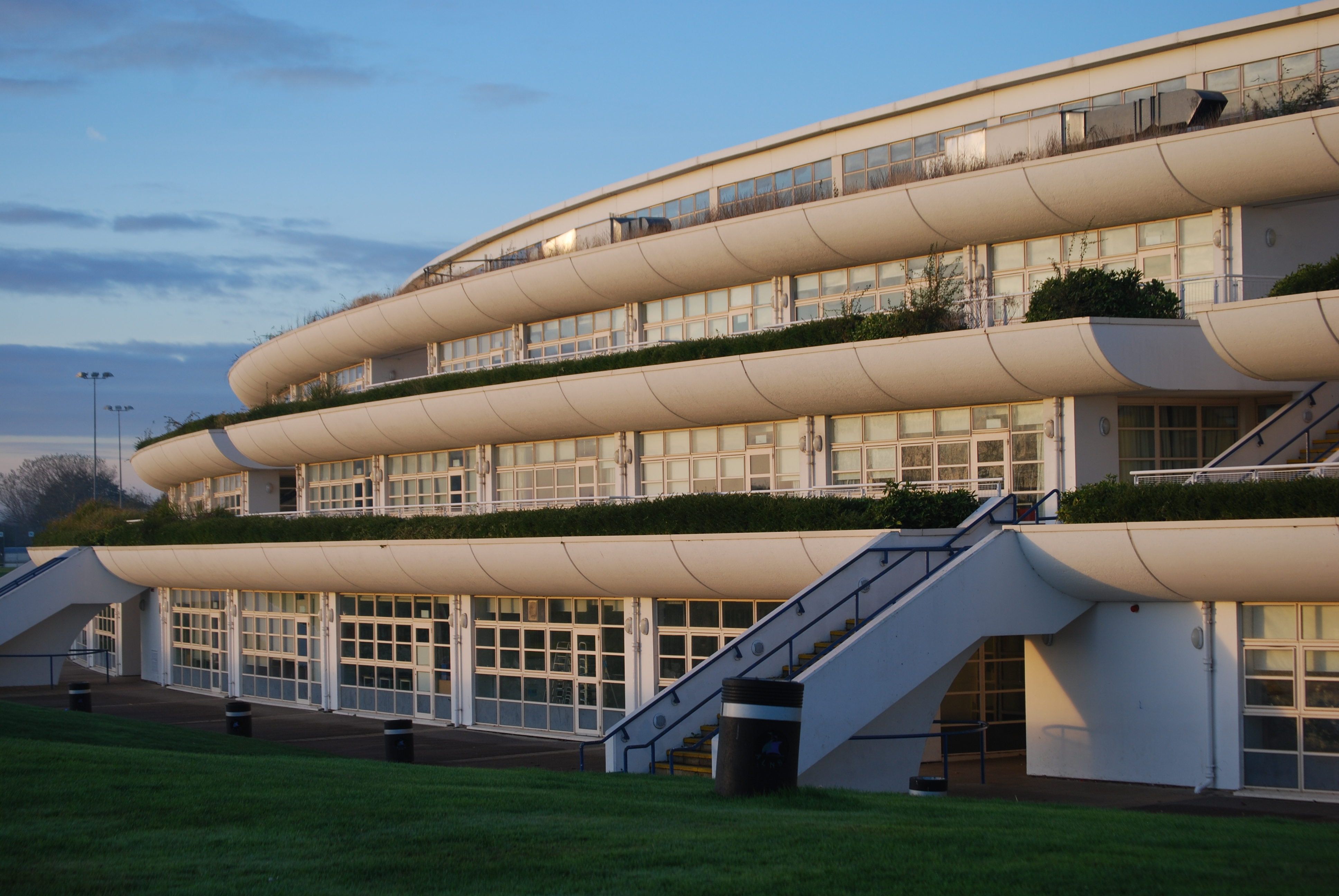 Photo of Admiral Lord Nelson School, Portsmouth, UK